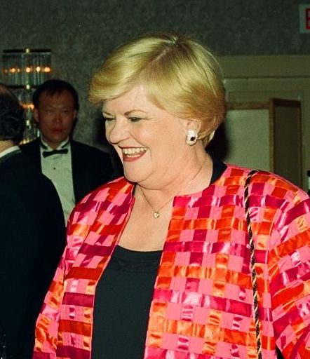 WHCD Wash D.C April 25, 1998